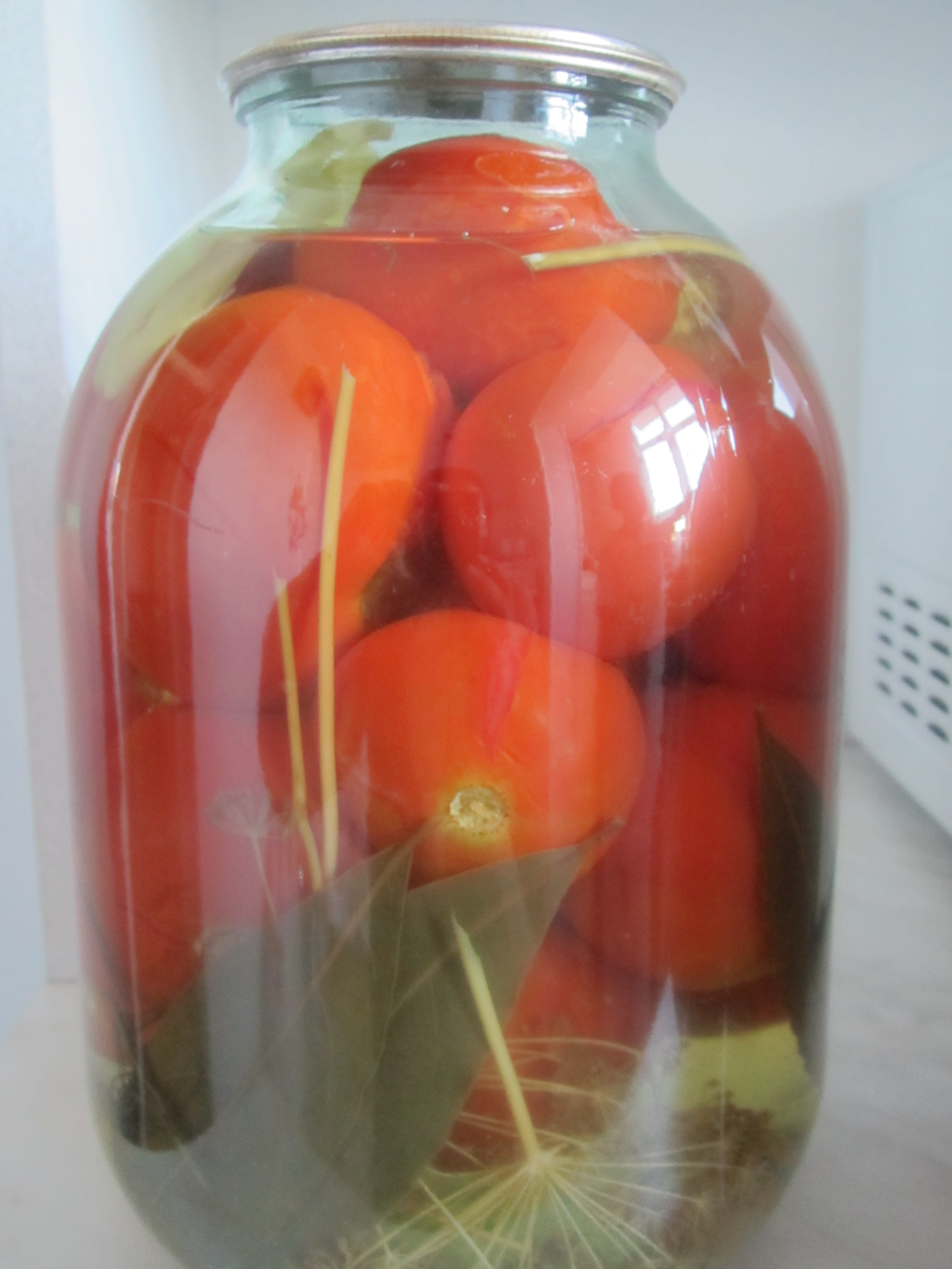 Marinated tomatoes